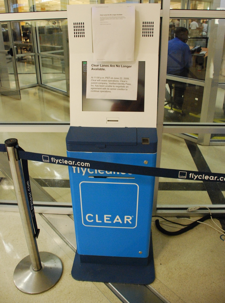 Flyclear kiosk